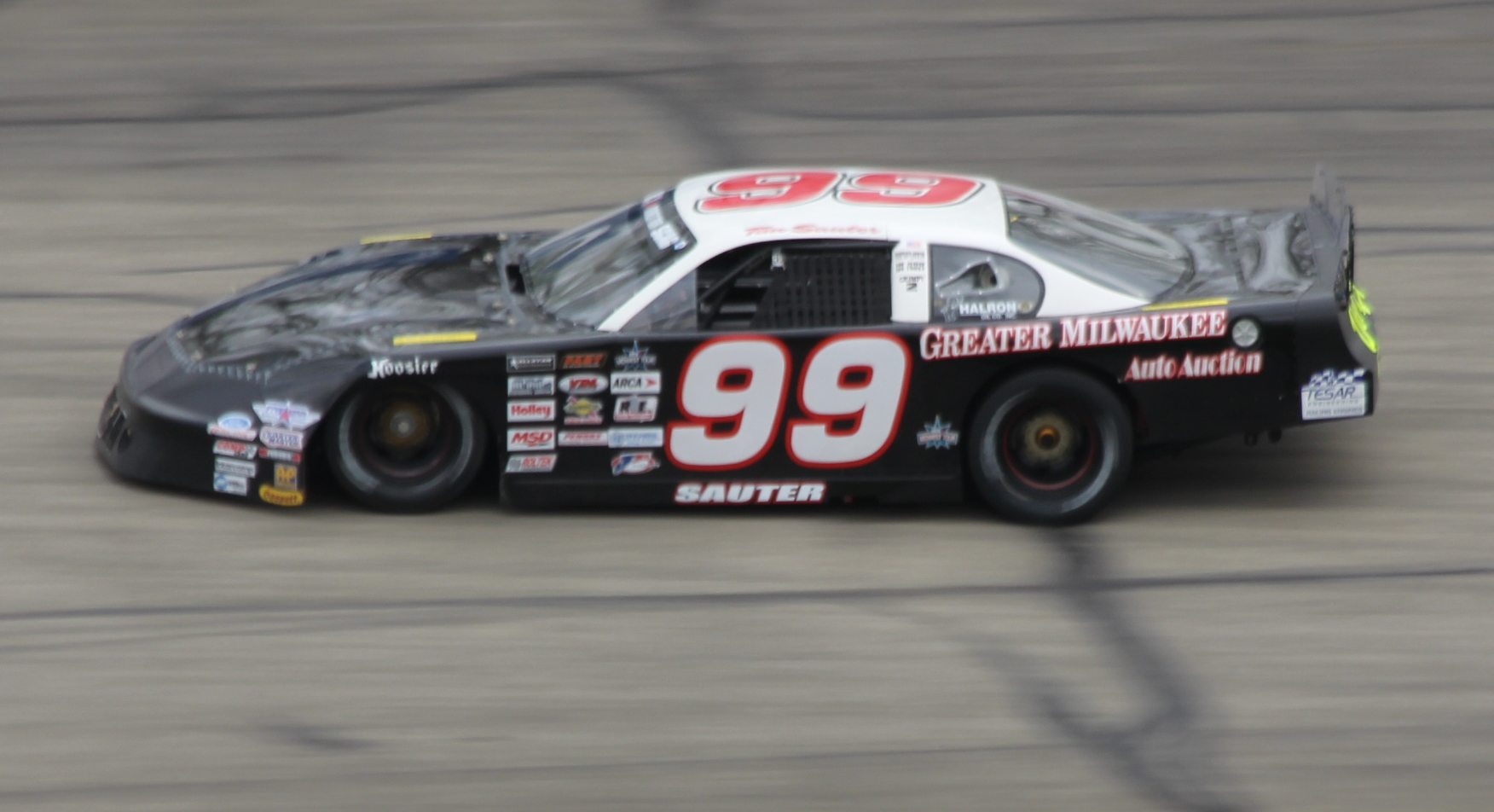 5.1.16 Madison International Speedway/ARCA Midwest Tour - 99 Tim Sauter The 2016 ARCA Midwest Tour car of Tim Sauter